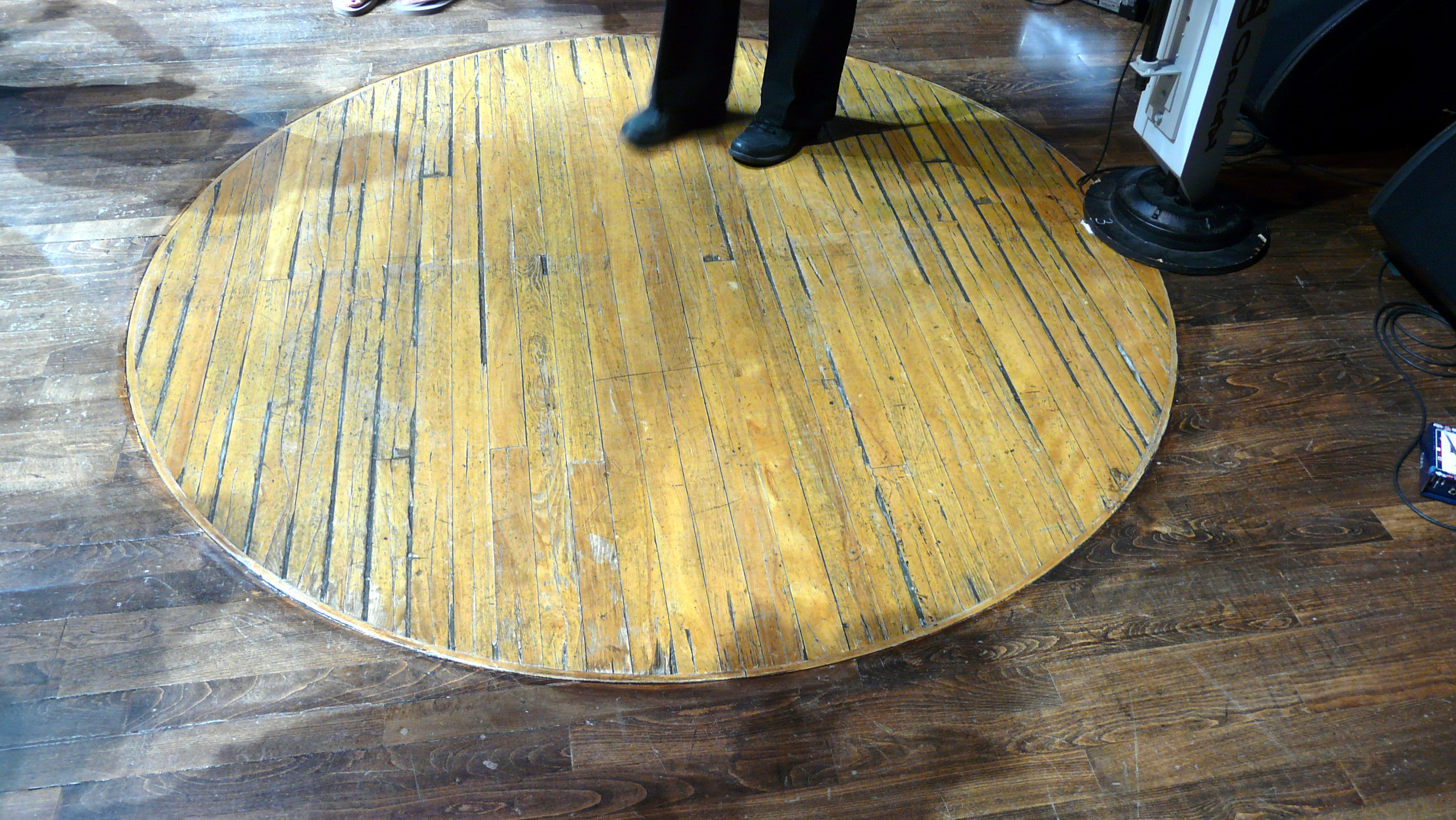 The piece of a wood cut from the floor of the Ryman Auditorium. The Grand Ole Opry House, 2010.